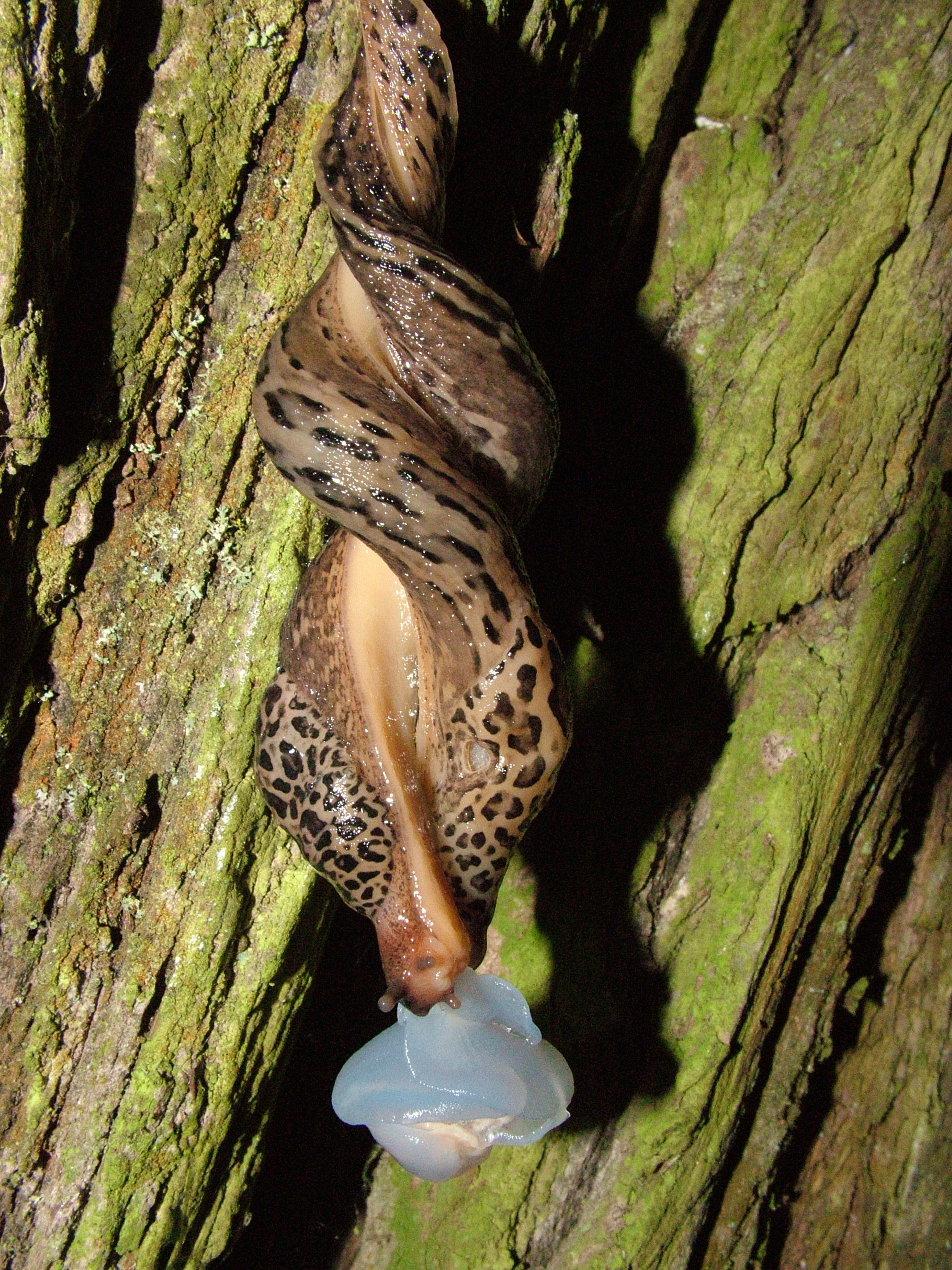 Mating of Limax maximus